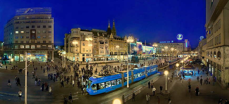 Microcebus rufus 001.jpg Trg bana Josipa Jelačića noću, en. Ban Jelačić Sguare by nightHrvatski: Trg bana Jelačića u Zagrebu, po noći (panoramska fotografija)